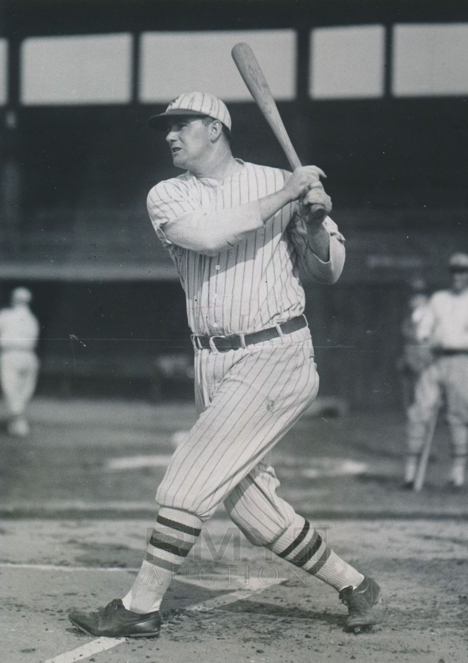 Black and white image of baseball player James Francis "Shanty" Hogan of the New York Giants in 1928